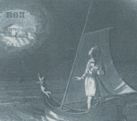 Beta Theta Pi was organized at Ohio University in 1841 and was the first fraternity at Ohio University